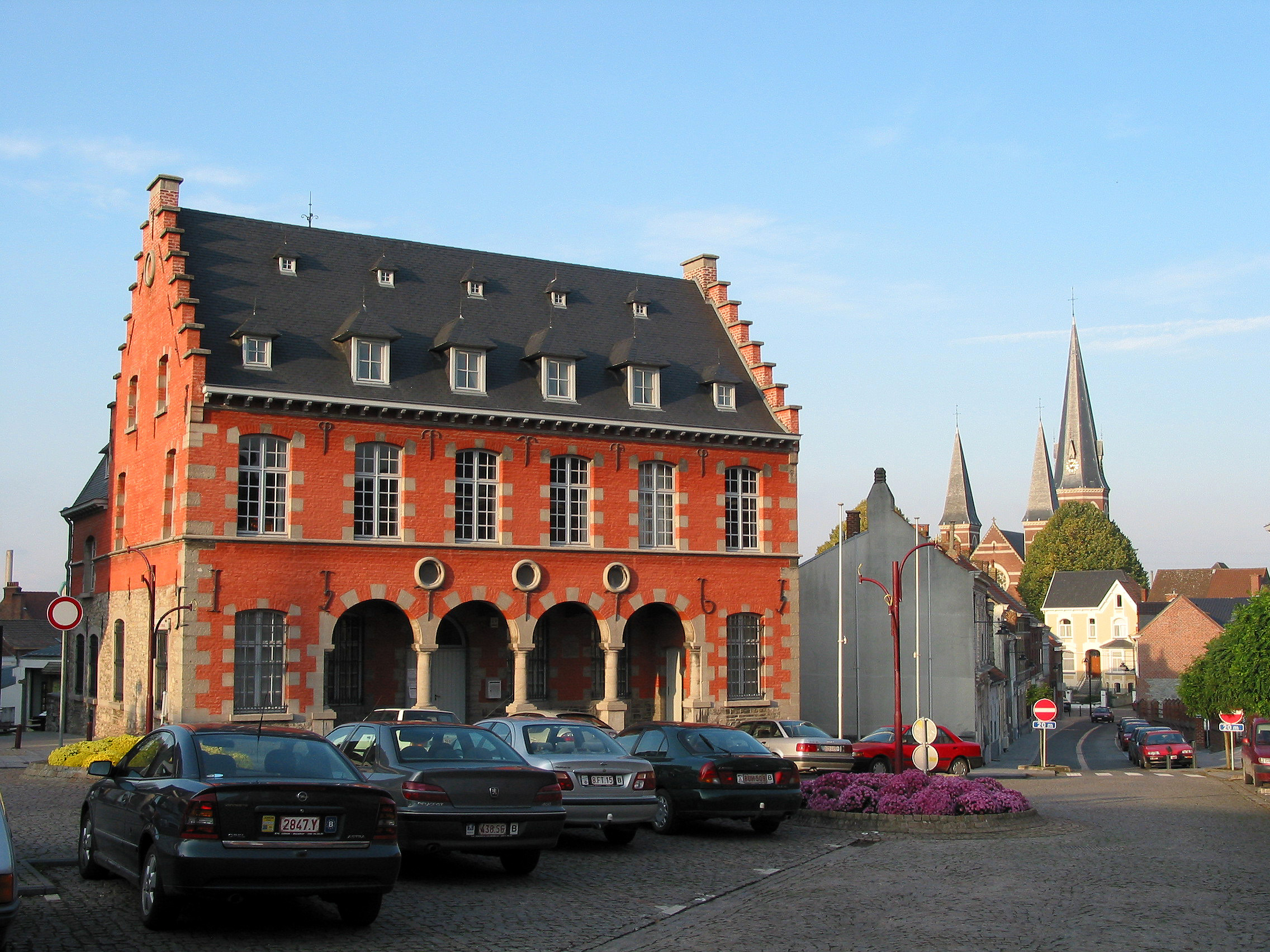 Antoing (Belgium), the town hall (1565).